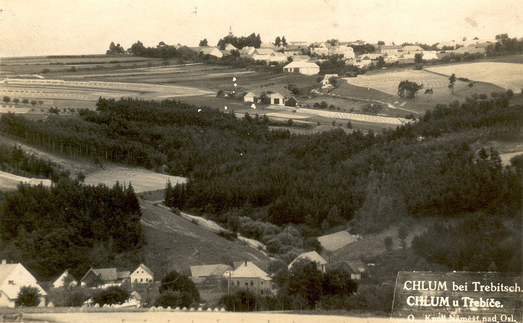 Overview of Chlum and Číchov in Chlum, Třebíč District.